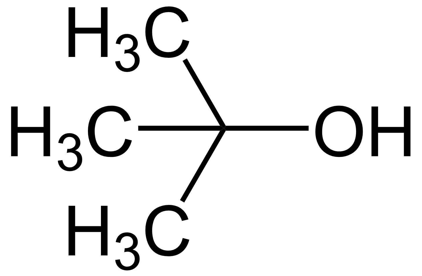 tert butyl alcohol